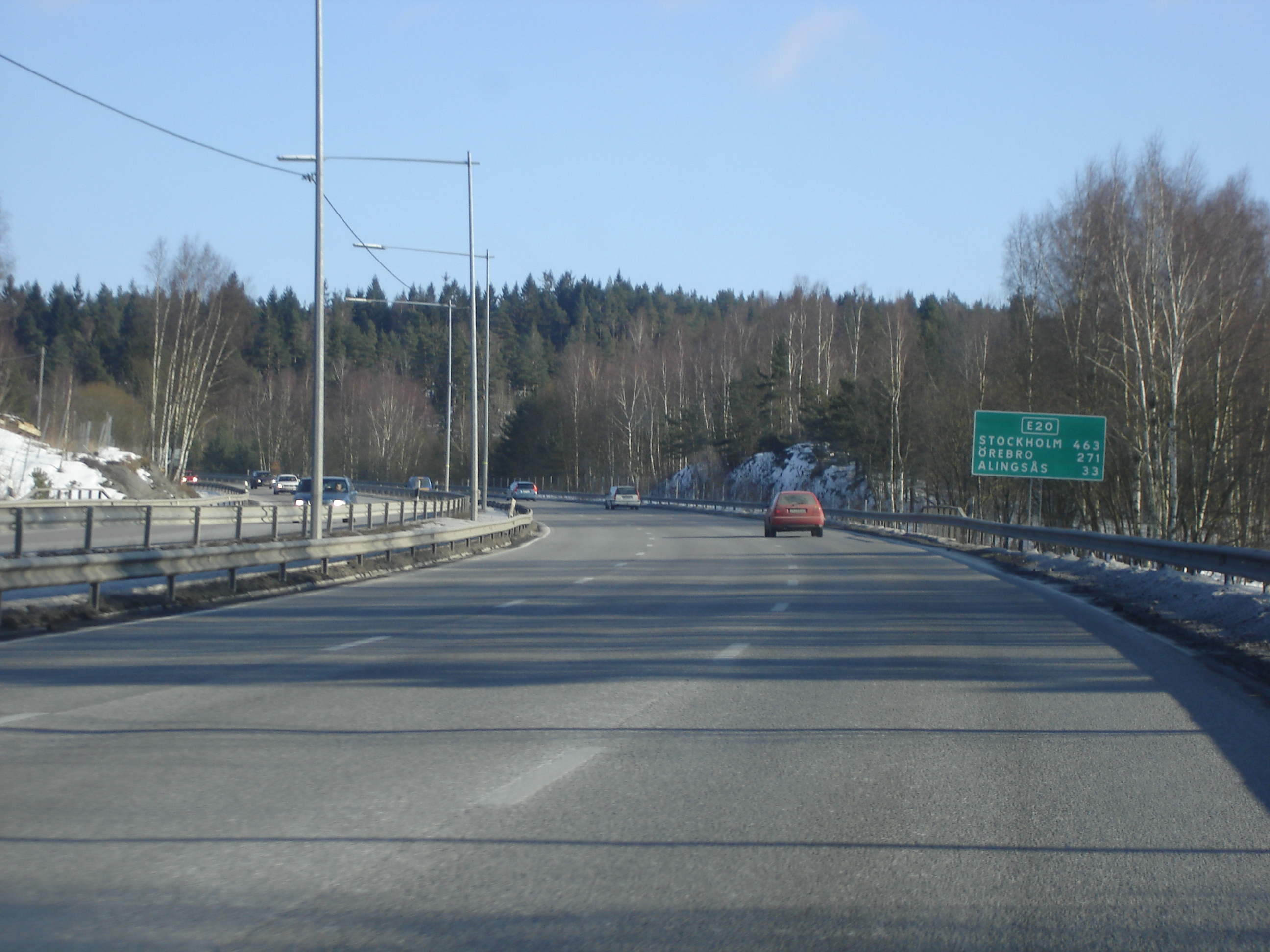 European highway 20 east Gothenburg, Sweden. Photo: Sebbe (User:Sebbe) 2006-03-11